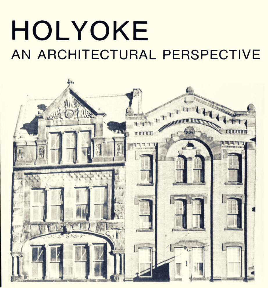 Cover of Holyoke, An Architectural Perspective, a compilation of photos and descriptions of buildings and architectural motifs, primarily stone and masonry, published for the city's centennial.